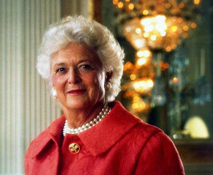 First Lady Barbara Bush in the White House East Room for an official White House portrait, January 1992.